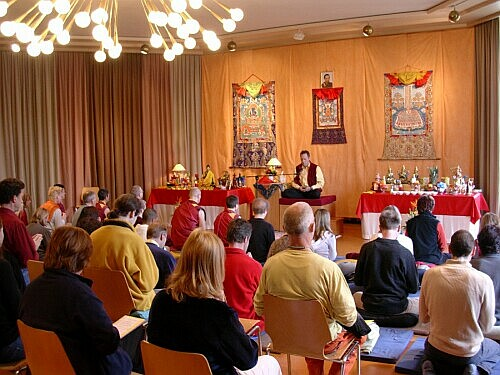 Vesakh1 Schweiz